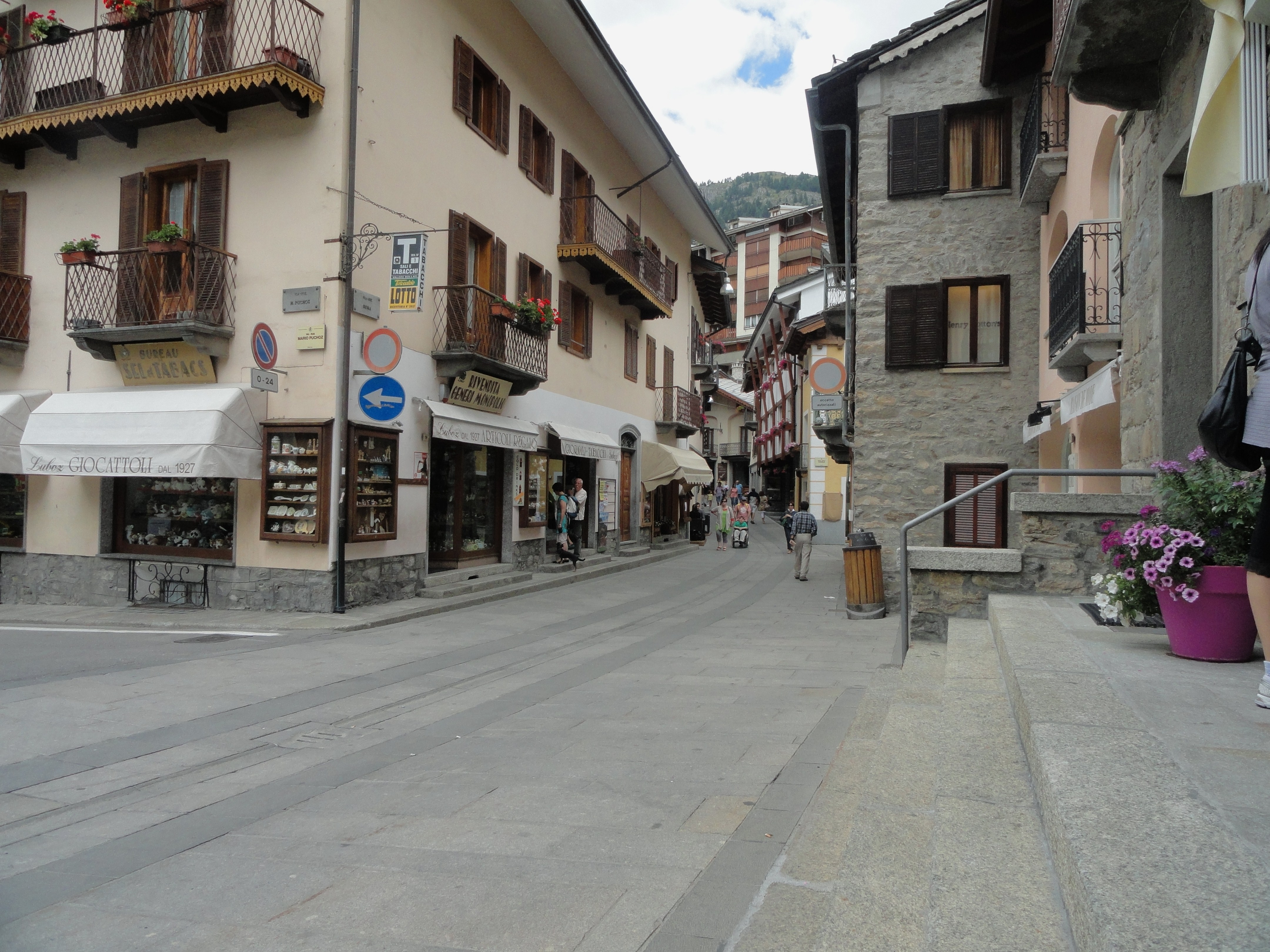 Courmayeur: city center